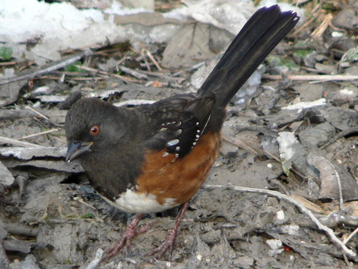 Spotted Towhee